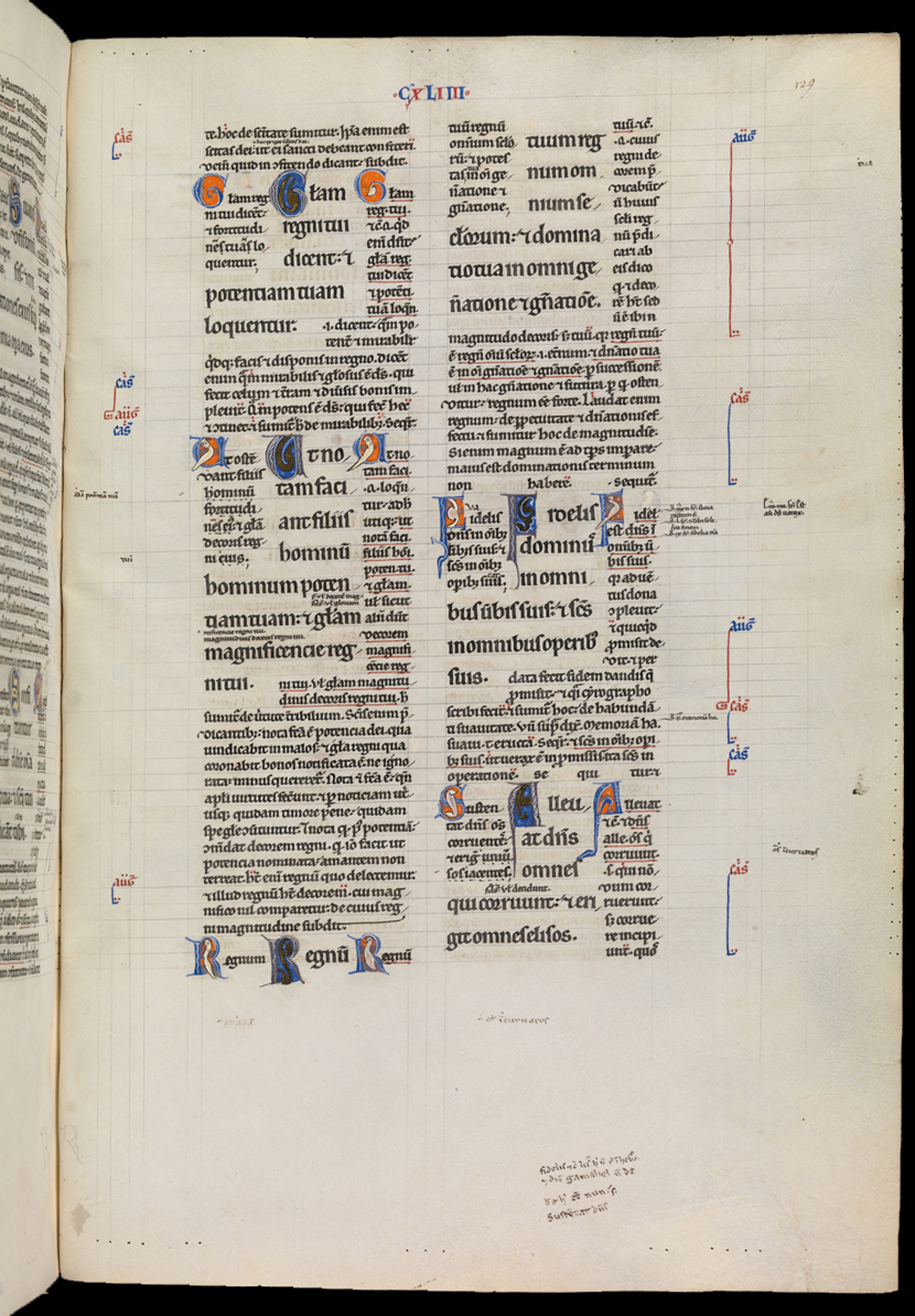 Herbert of Bosham, Peter Lombard's Commentary on the Psalter, part II (PSALMS 74–150) Paris?, c. 1173–77, 20 x 11 3/4 in. (50.8 x 29.8 cm), MS. Auct. E. inf. 6, one of four volumes, fol. 129r This work was compiled by Herbert of Bosham (died c. 1194), a Hebraist in the household of Thomas Becket, archbishop of Canterbury. Twelfth-century Christian theologians often turned to Jewish commentaries on the Bible to broaden their understanding of scripture. Bosham consulted a Jewish scholar, whom he called "my grammarian." At bottom is a note: "The Hebrew does not have this verse [in Psalm 145] and Gamaliel says that [it] does not belong here." "Gamaliel" here alludes to the Talmud, or to a wider body of rabbinic sources.